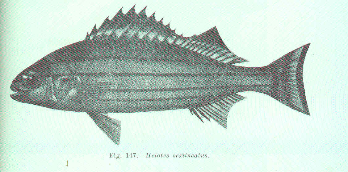 Helotes sexlineatus Subject: Perciformes, Perch Tag: Fish